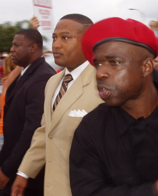 Quanell X (center), leader of the New Black Panther Party in Houston, Texas, at Joe Horn shooting controversy rally.